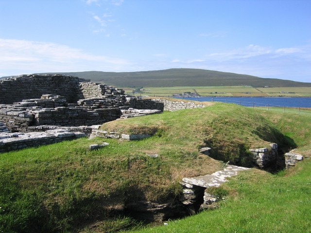 Cubby Roo's Castle on Wyre, Orkney